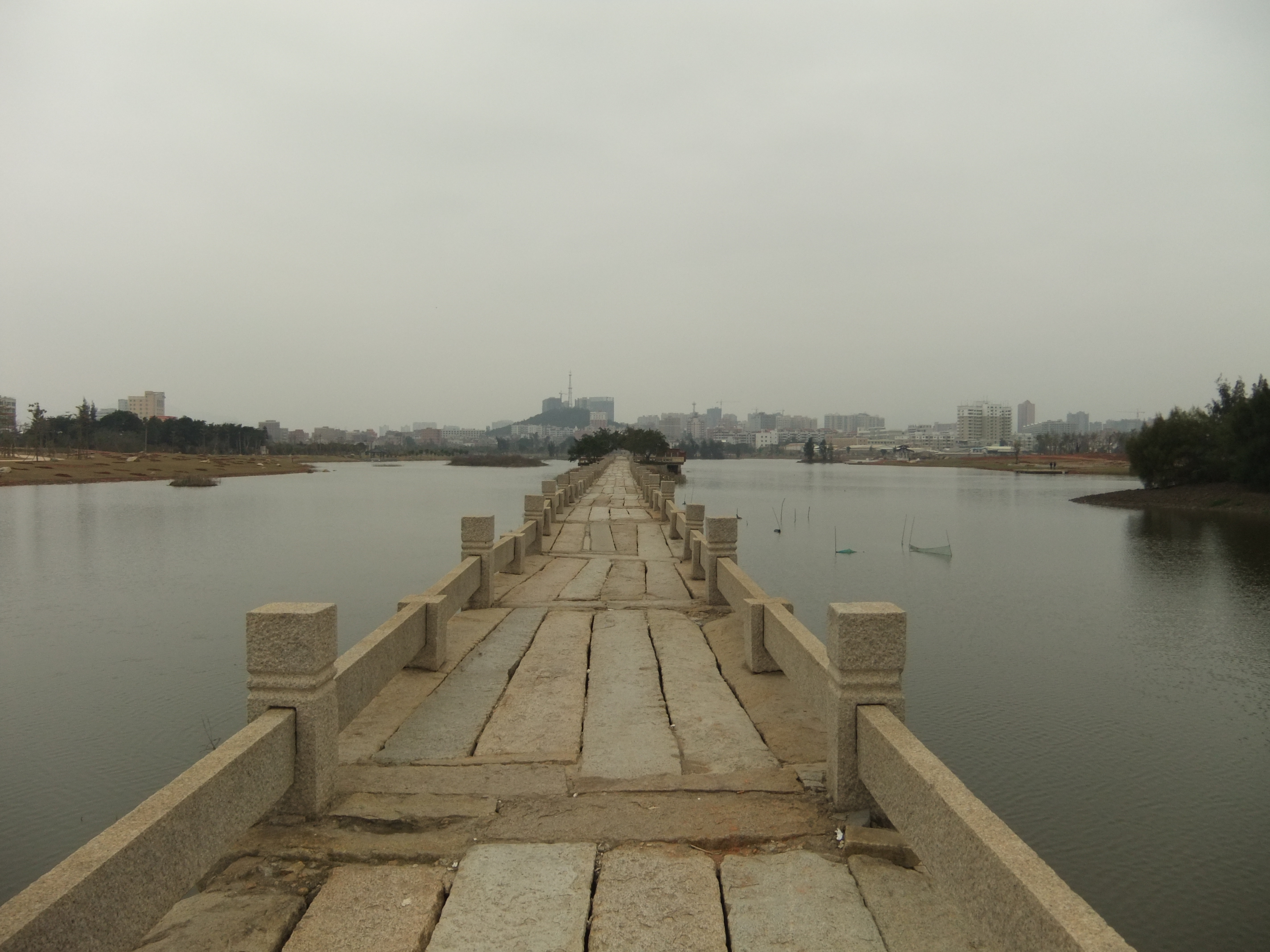 The west-central part of Anping Bridge (west of the main channel of the Shijing River, east of Xinxing Gong. This part is within Shuitou Town. Looking west, toward Xinxing Gong and Shuitou Town center.